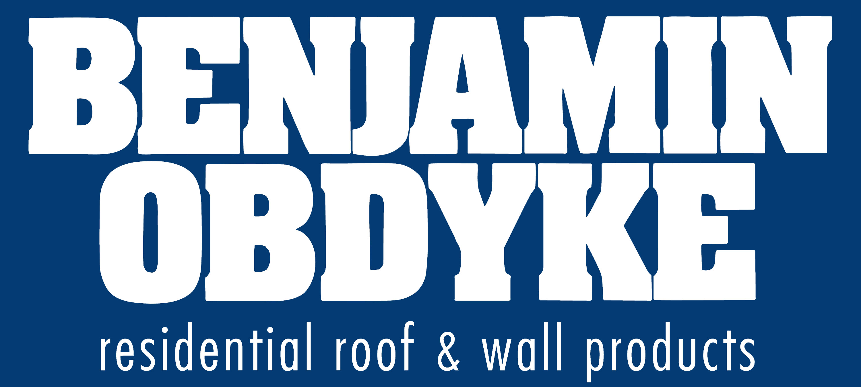 Official corporate logo for Benjamin Obdyke Incorporated.